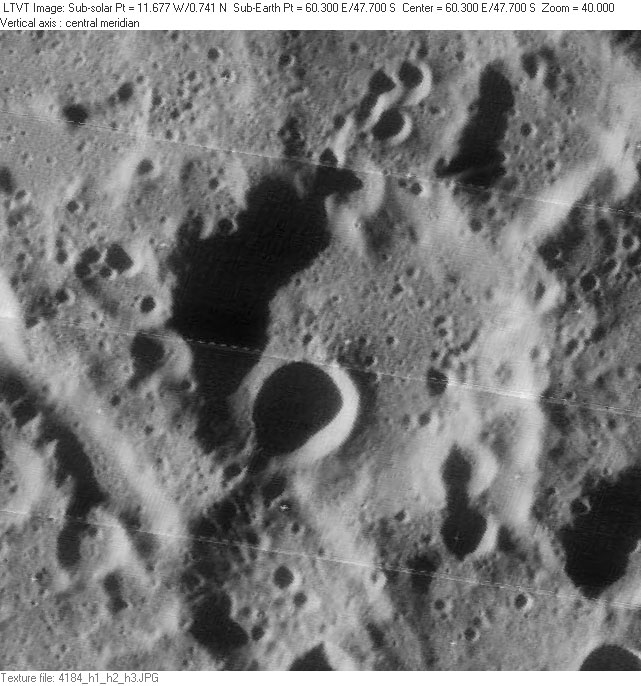 Crater Reimarus. Detail from Lunar Orbiter IV-184H. High resolution scans from the USGS Lunar Orbiter Digitization Project remapped to a north-up aerial view by LTVT.